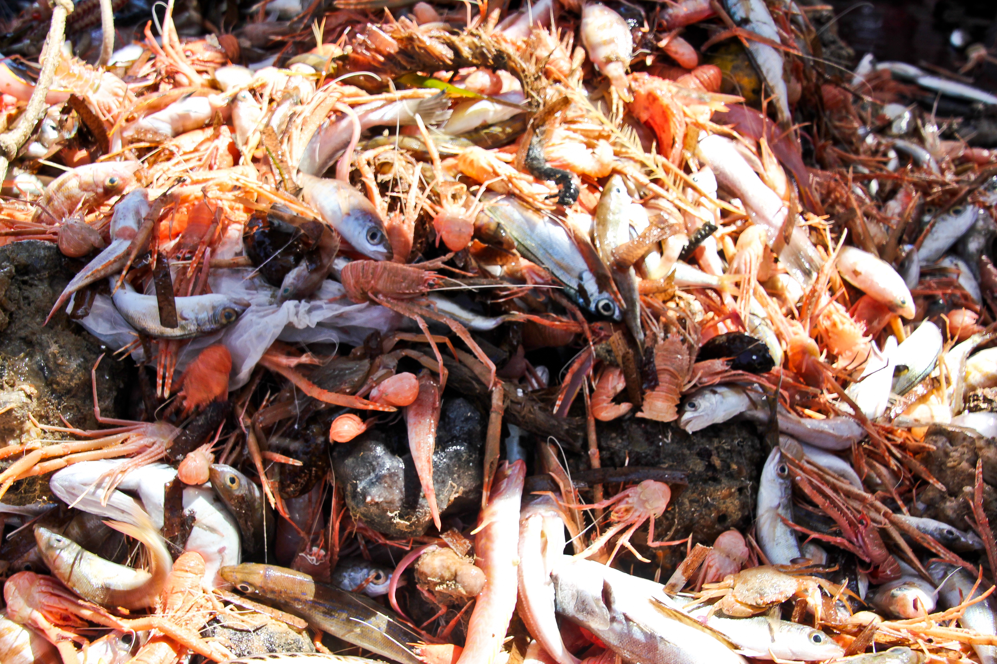 Catch on a tourist boat, Island of Pag, Croatia